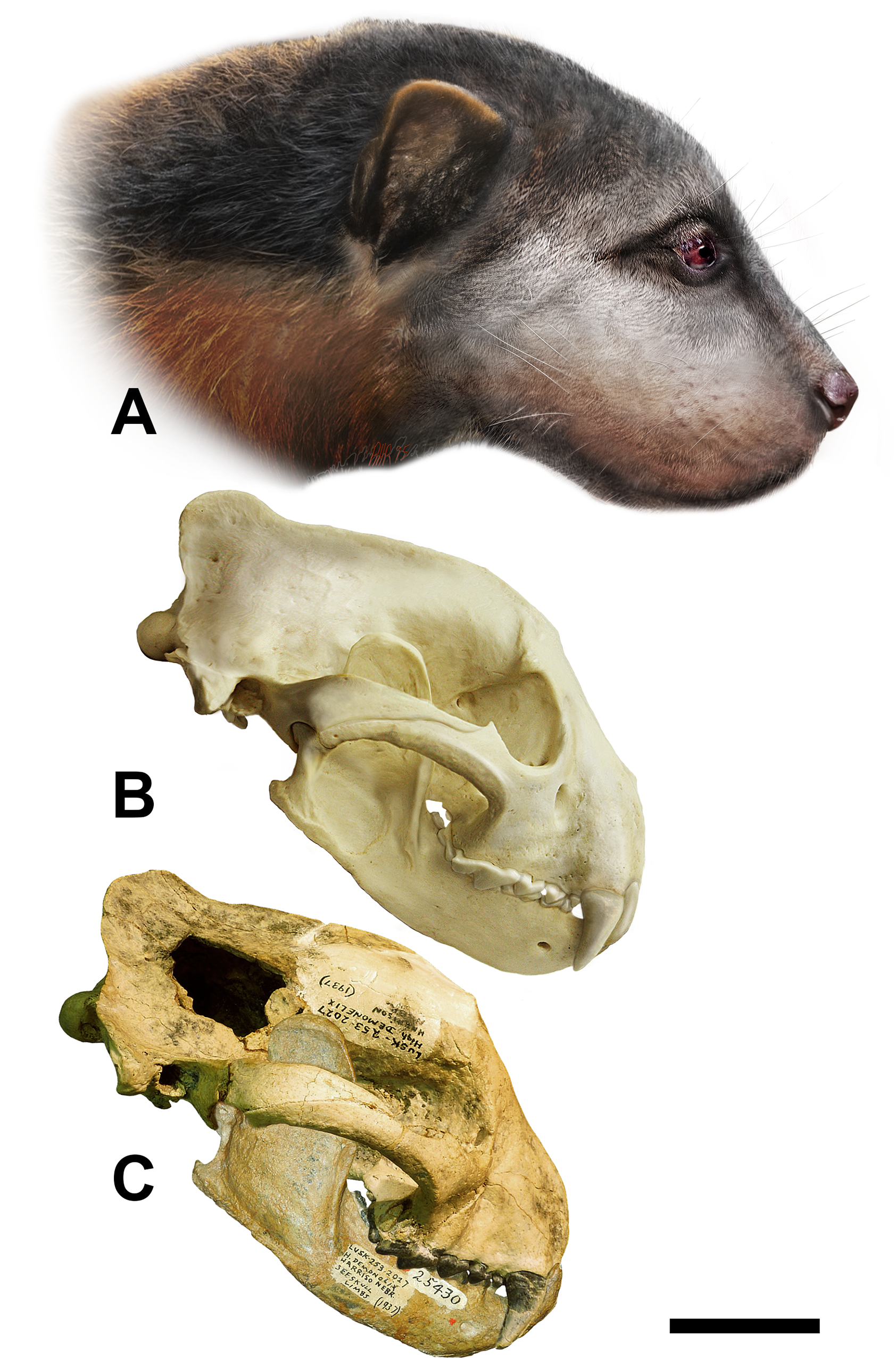 Cranium F:AM 25430 of Megalictis ferox. A lateral view; B rostral view; C dorsal view; D caudal view; E ventral view. Scale bar equals 5 cm.